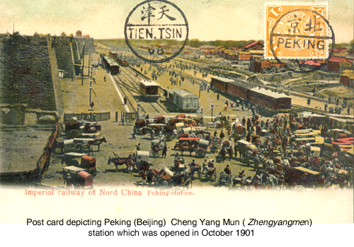 picture of Cheng Yan Mun station at Peking (Beijing) 1901